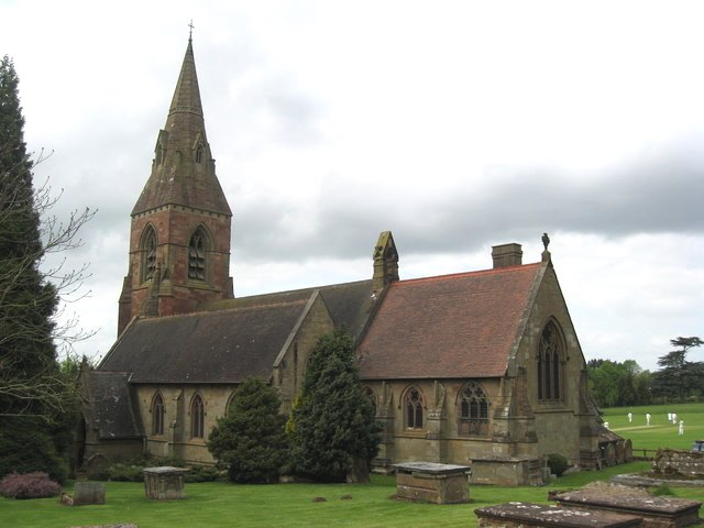 St John the Baptist Church, Hagley Worcestershire. The church's origins go back to medieval times or even further, since there has been a church on this site since late Saxon times. The de Hagley family was responsible for enlarging and rebuilding the church in the 14th century. Evidence of this period is to be seen in three arches of the south aisle, built in the Decorated style, c.1300. A wooden board near the present entrance door lists the Rectors of the parish from 1285. The north aisle was enlarged in the early 19th century, and the church was further enlarged and virtually rebuilt in 1856, when its interior assumed its present day shape. The imposing tower was added in 1865 and a peal of 8 bells was hung.